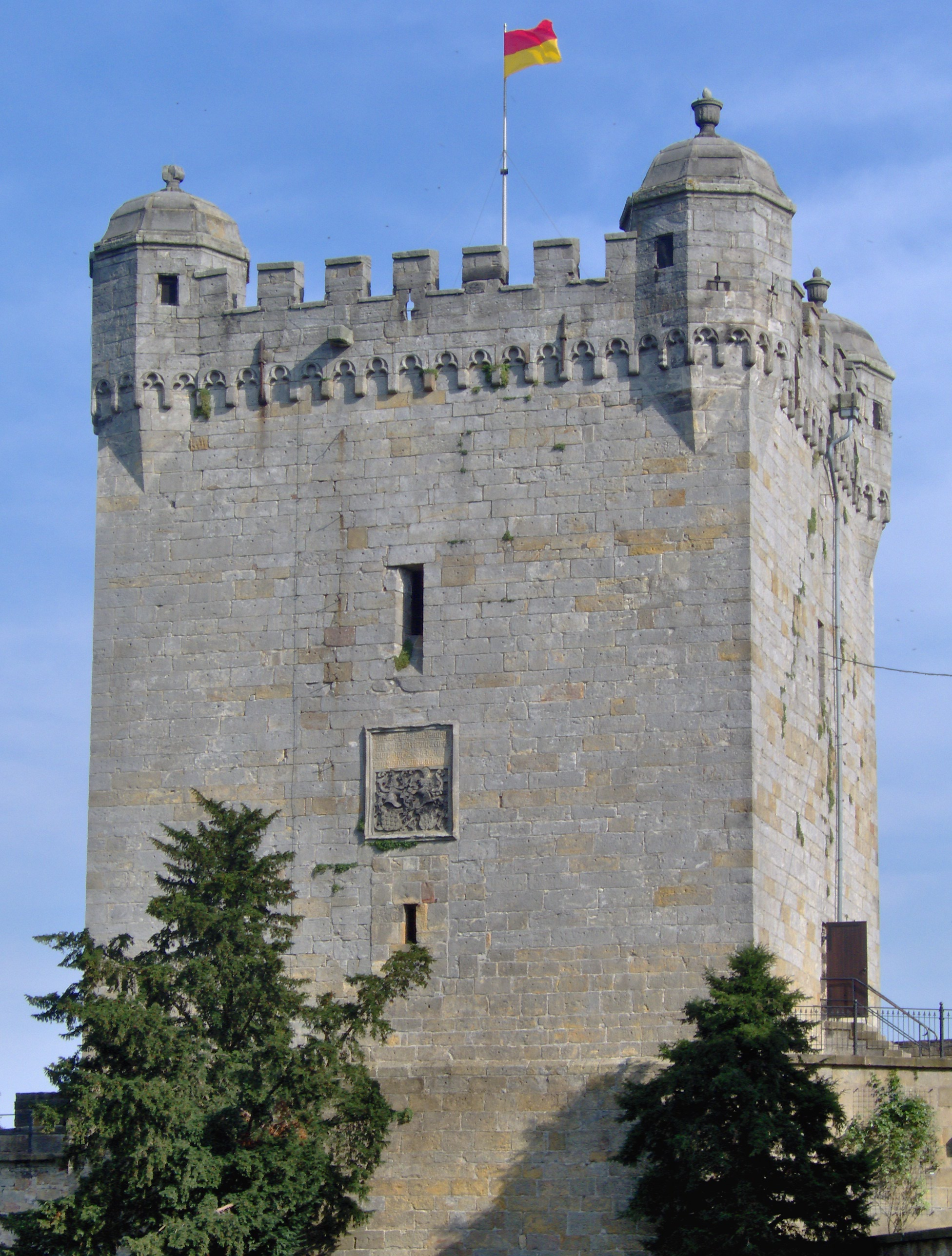 The gunpowder tower of the Bentheim castle in Bad Bentheim, Germany.